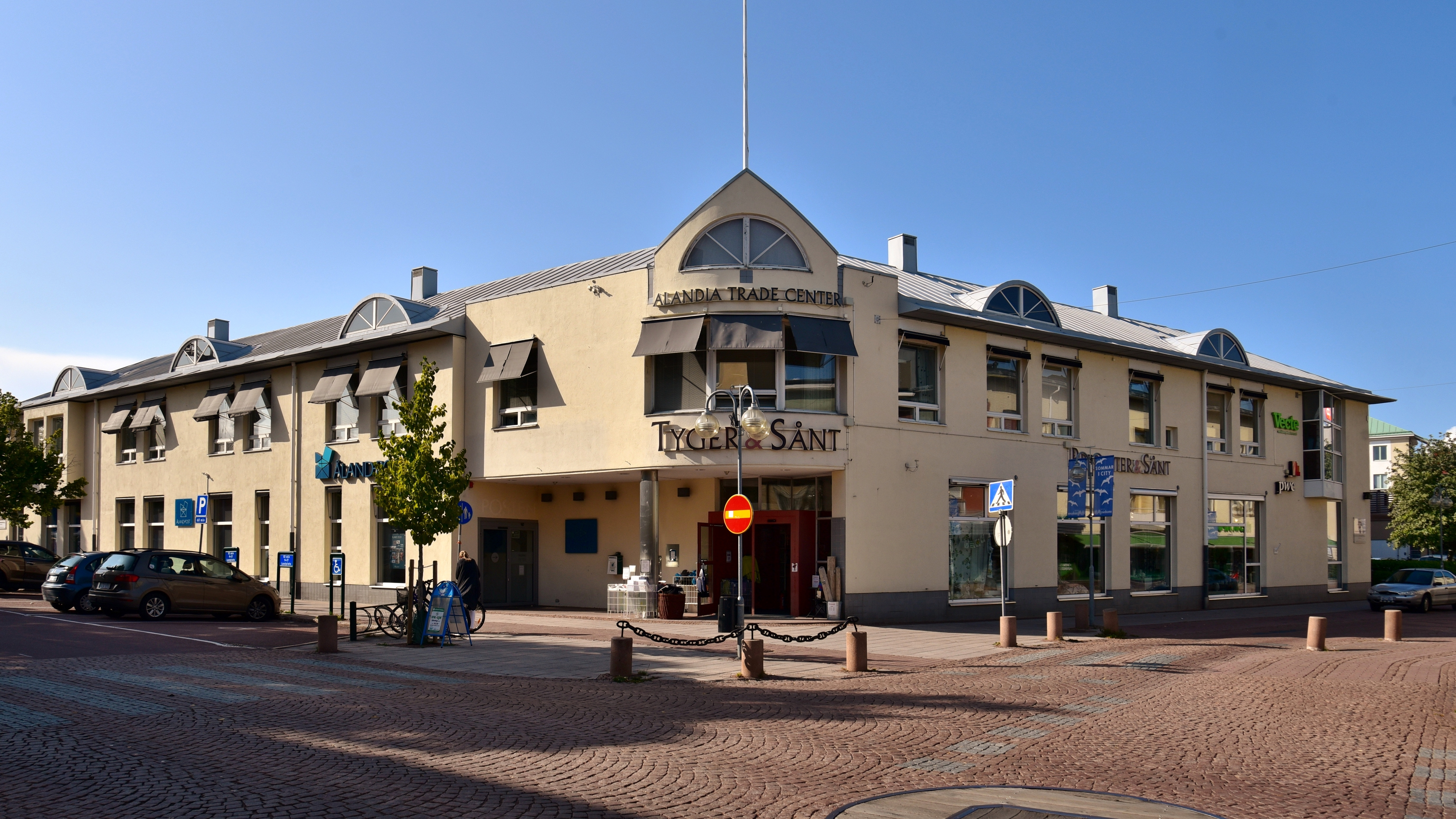 View of the Alandia Trade Center, an office building in Mariehamn, Åland Islands, Finland